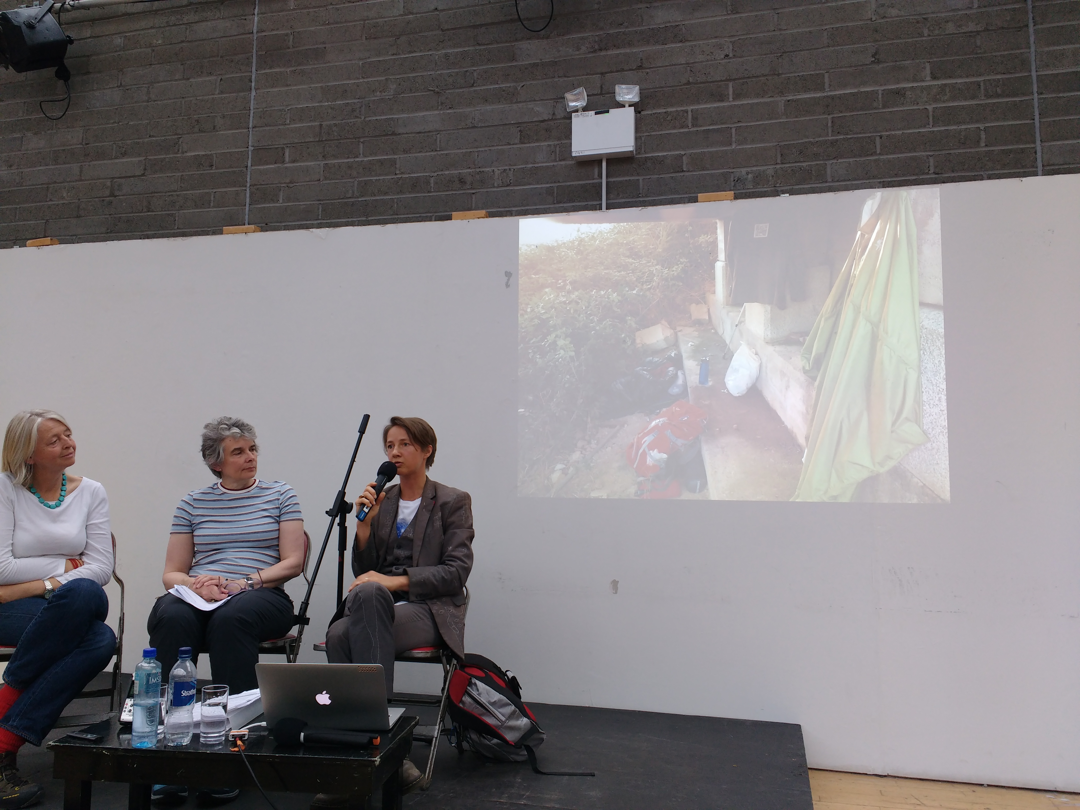 An image of a panel discussion at Walking Women, Forest Fringe Edinburgh, August 2016. right is Monique Besten